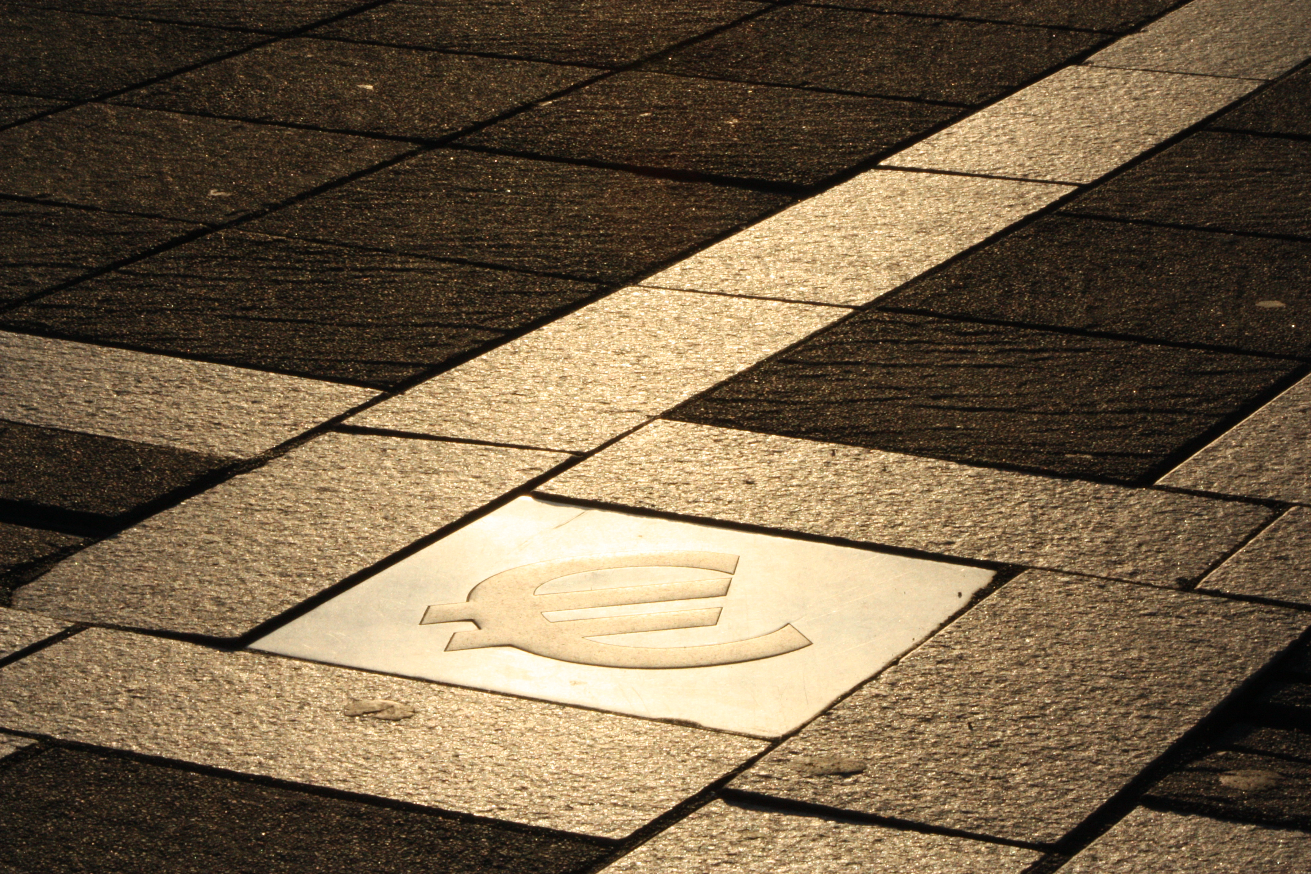 A EURO-symbol on the ground of 'plein 1992'